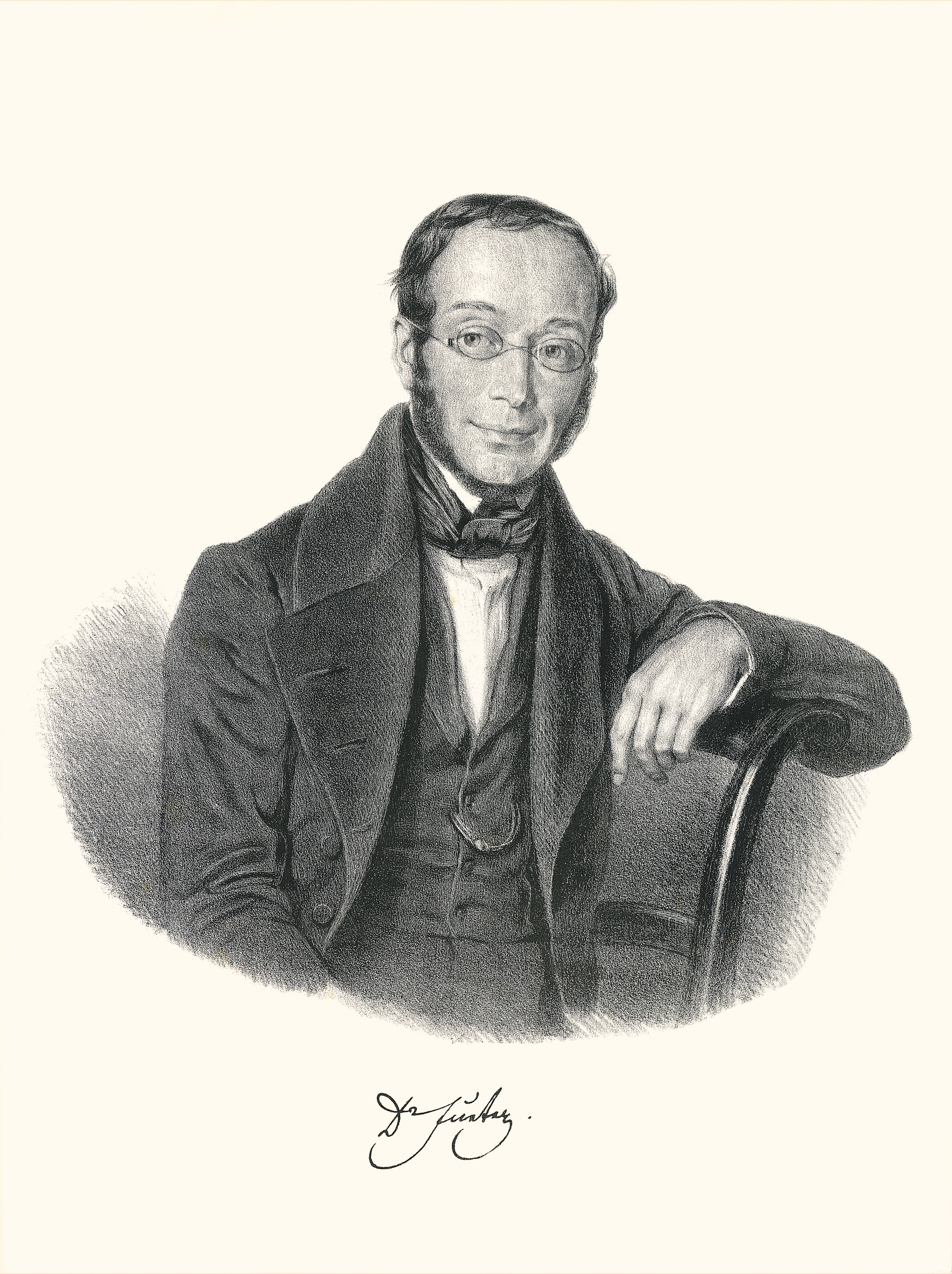 Fueter.tif